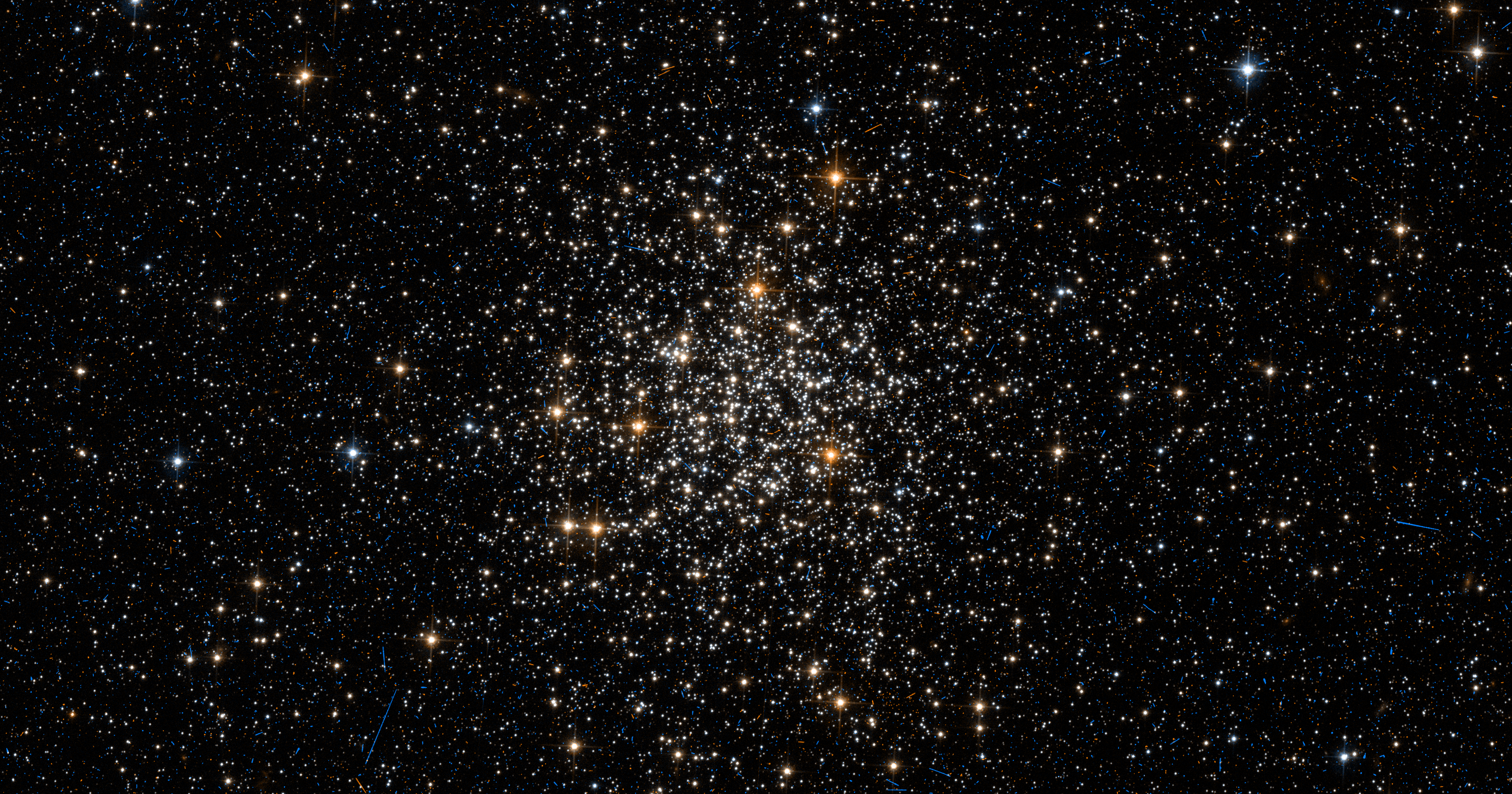 Color rendering is done by by Aladin-software (2000A&AS..143...33B.)